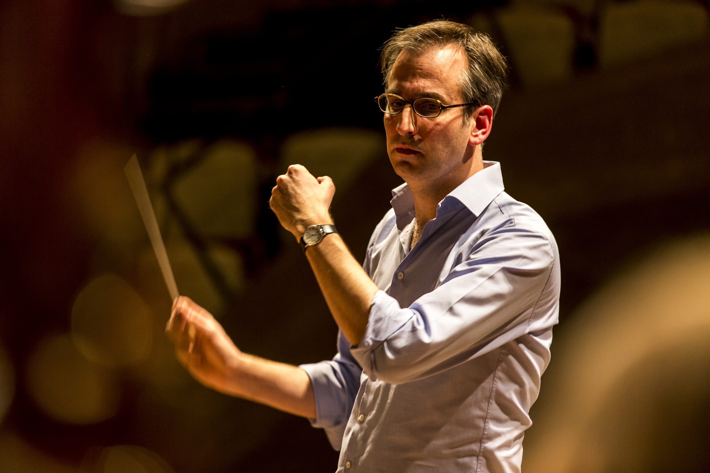 Martin Lill rehearsing